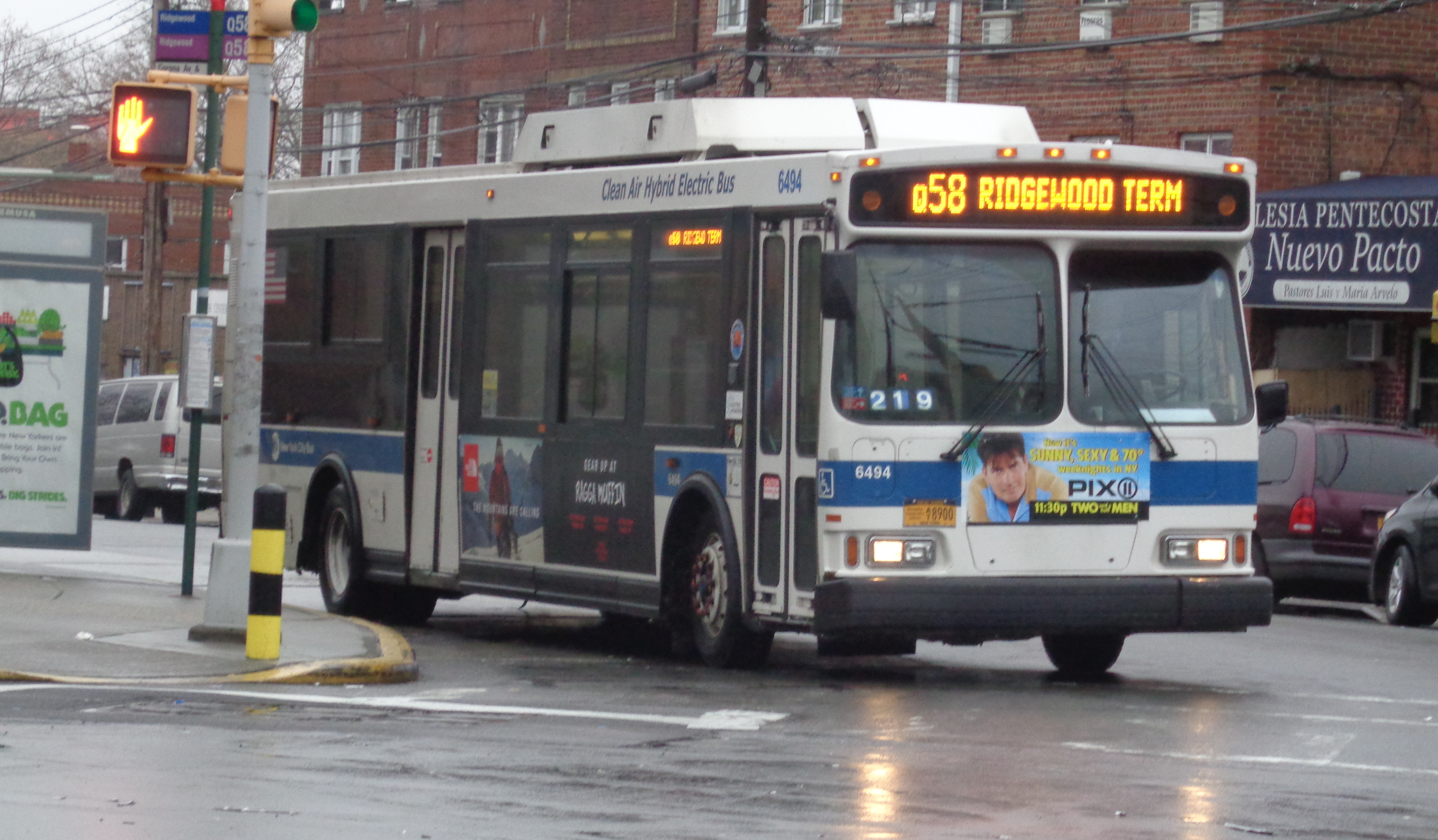 A Ridgewood-bound Q58 local bus at Corona Avenue and Junction Boulevard in Corona, Queens